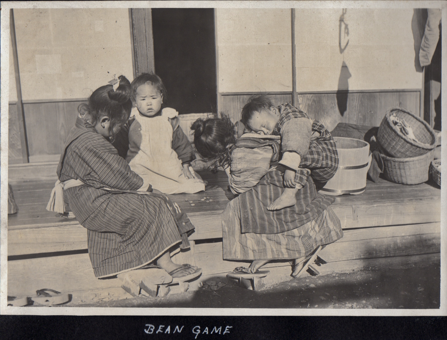 This photo is from an album Elstner Hilton compiled in Japan between 1914 and 1918. Elstner was my spouse's uncle. While Uncle Elstner was pretty good about annotating the photos that required an explanation of some sort, he did not date the pictures. So all we know is they were taken between January, 1914 and December, 1918.